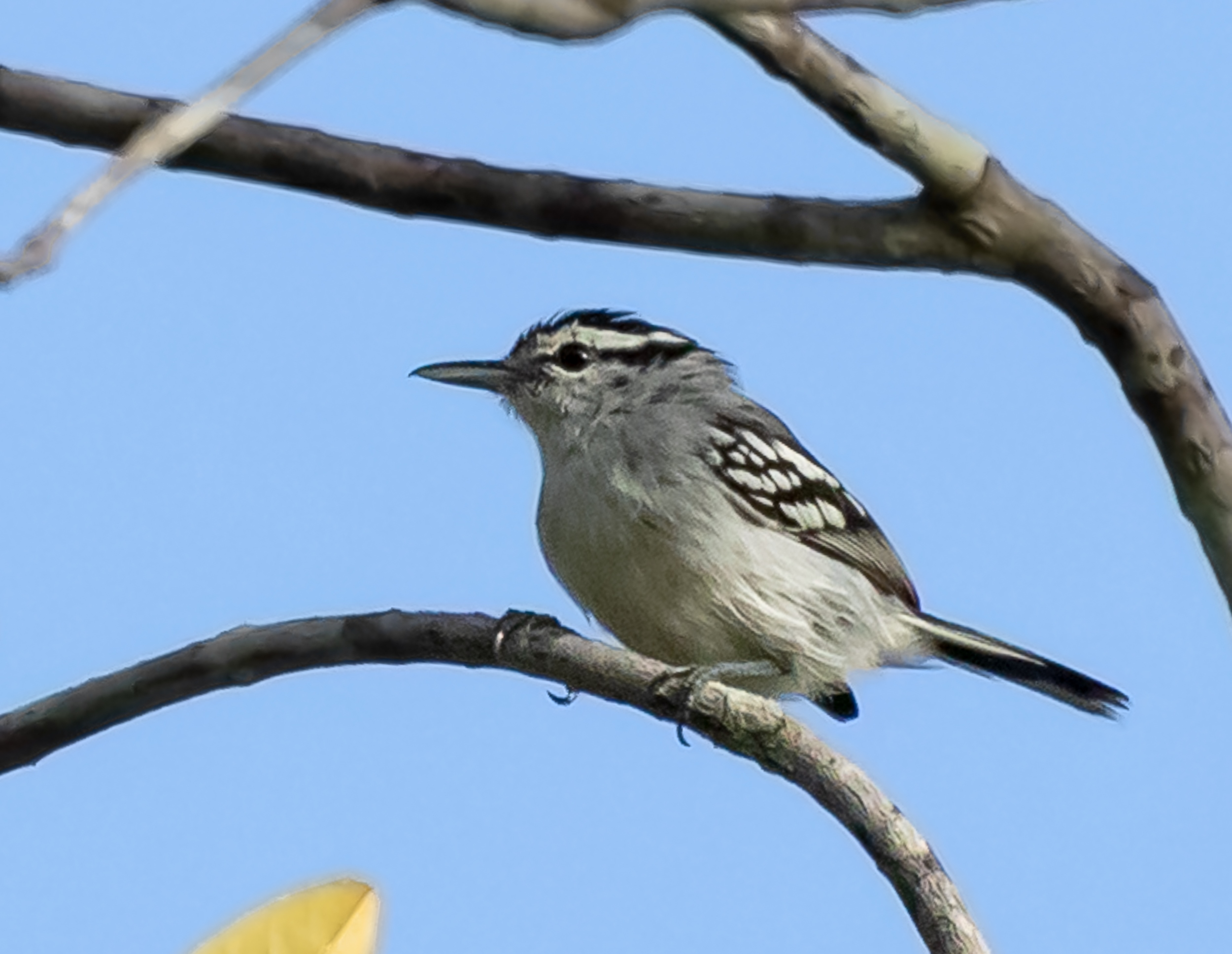 Predicted antwren; Beruri, Amazonas, Brazil